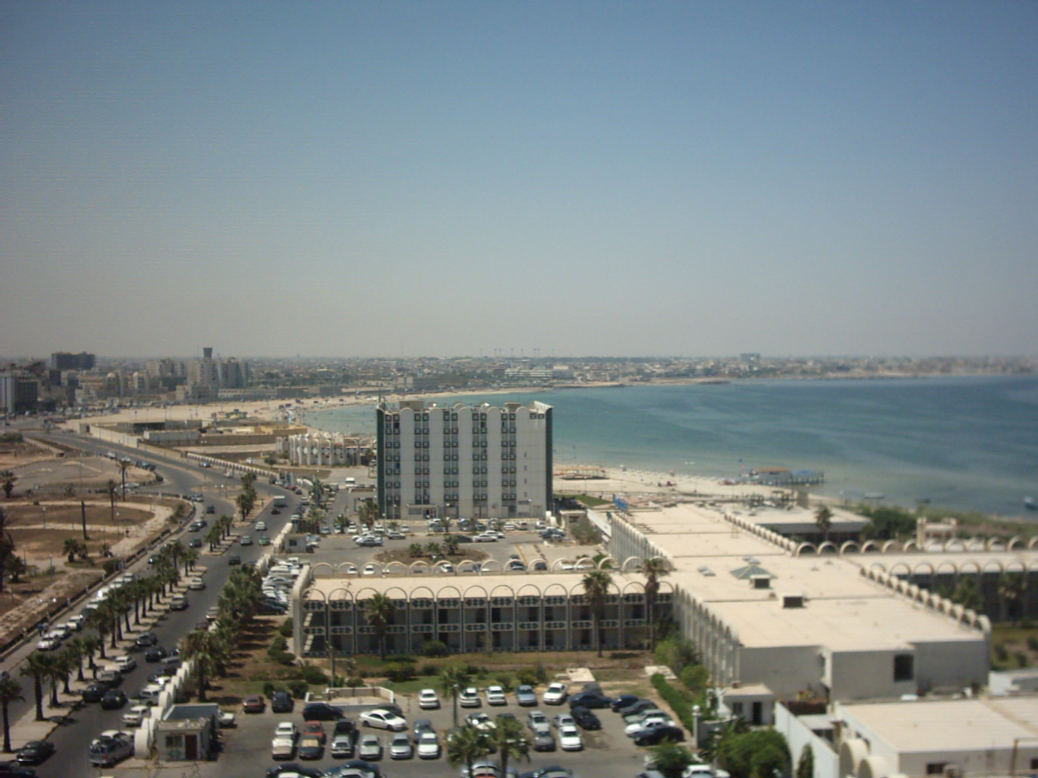 View of a city beach near the Central Business District of Tripoli. In the middle of the foreground is the Bab al-Jadid Hotel.